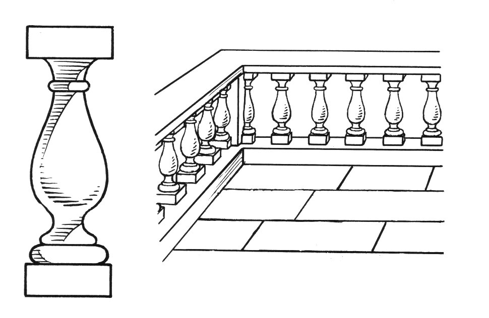 Line art drawing of a baluster and a balustrade.